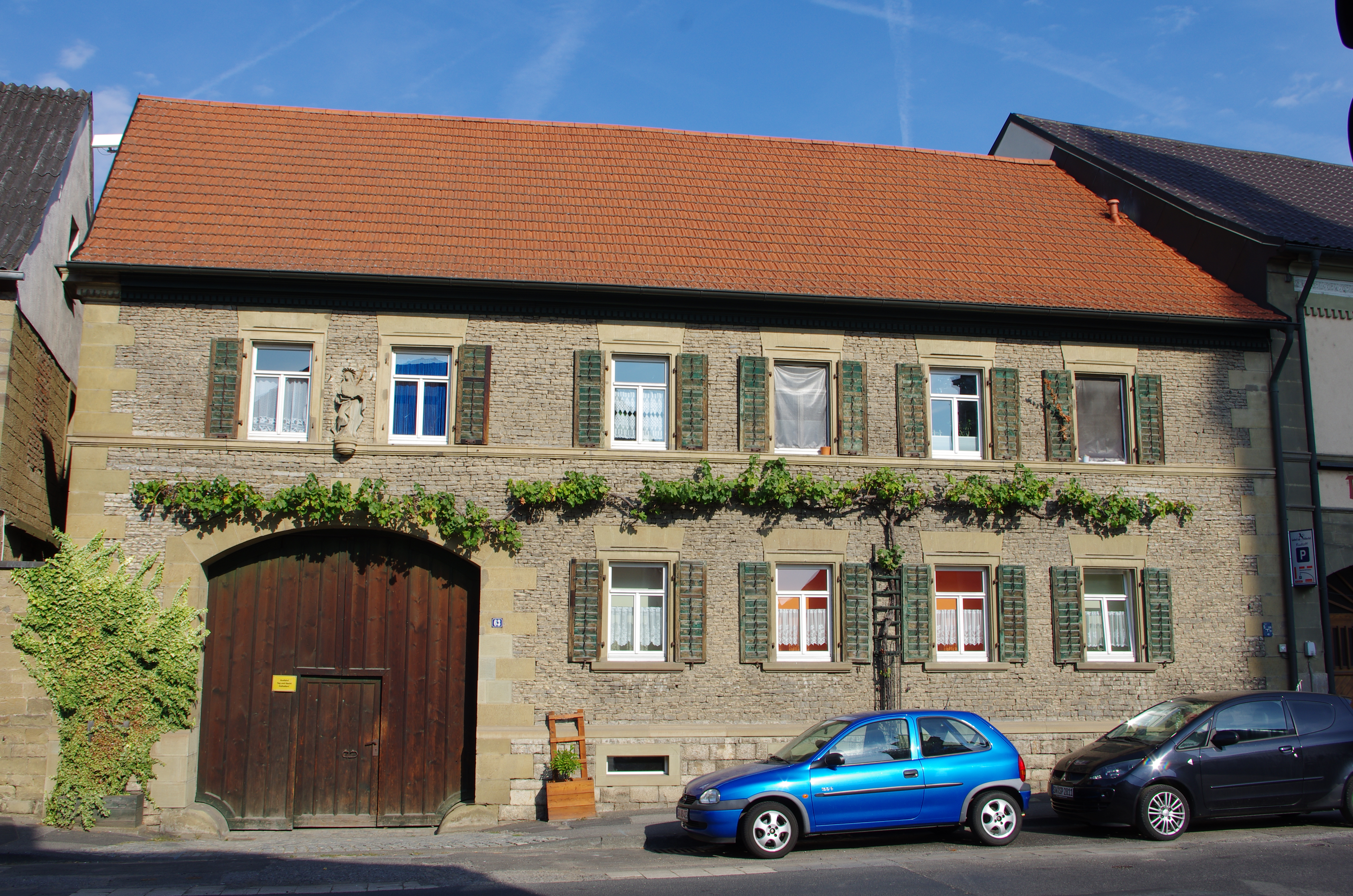 Zweigeschossiger, traufständiger Bruchsteinmauerwerksbau mit Sandsteingliederung, Tordurchfahrt und Satteldach, 1. Hälfte 19. Jahrhundert, nach 1834 Hauptstraße 63, Bergrheinfeld, Unterfranken, Detuschland